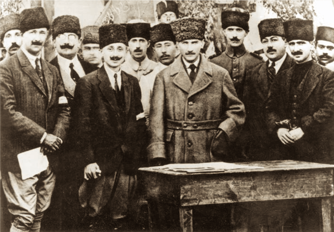 Kemal Atatürk (or alternatively written as Kamâl Atatürk, Mustafa Kemal Pasha until 1934, commonly referred to as Mustafa Kemal Atatürk; 1881 – 10 November 1938) was a Turkish field marshal, revolutionary statesman, author, and the founding father of the Republic of Turkey, serving as its first President from 1923 until his death in 1938. He undertook sweeping progressive reforms, which modernized Turkey into a secular, industrial nation. Ideologically a secularist and nationalist, his policies and theories became known as Kemalism. Due to his military and political accomplishments, Atatürk is regarded as one of the most important political leaders of the 20th century.